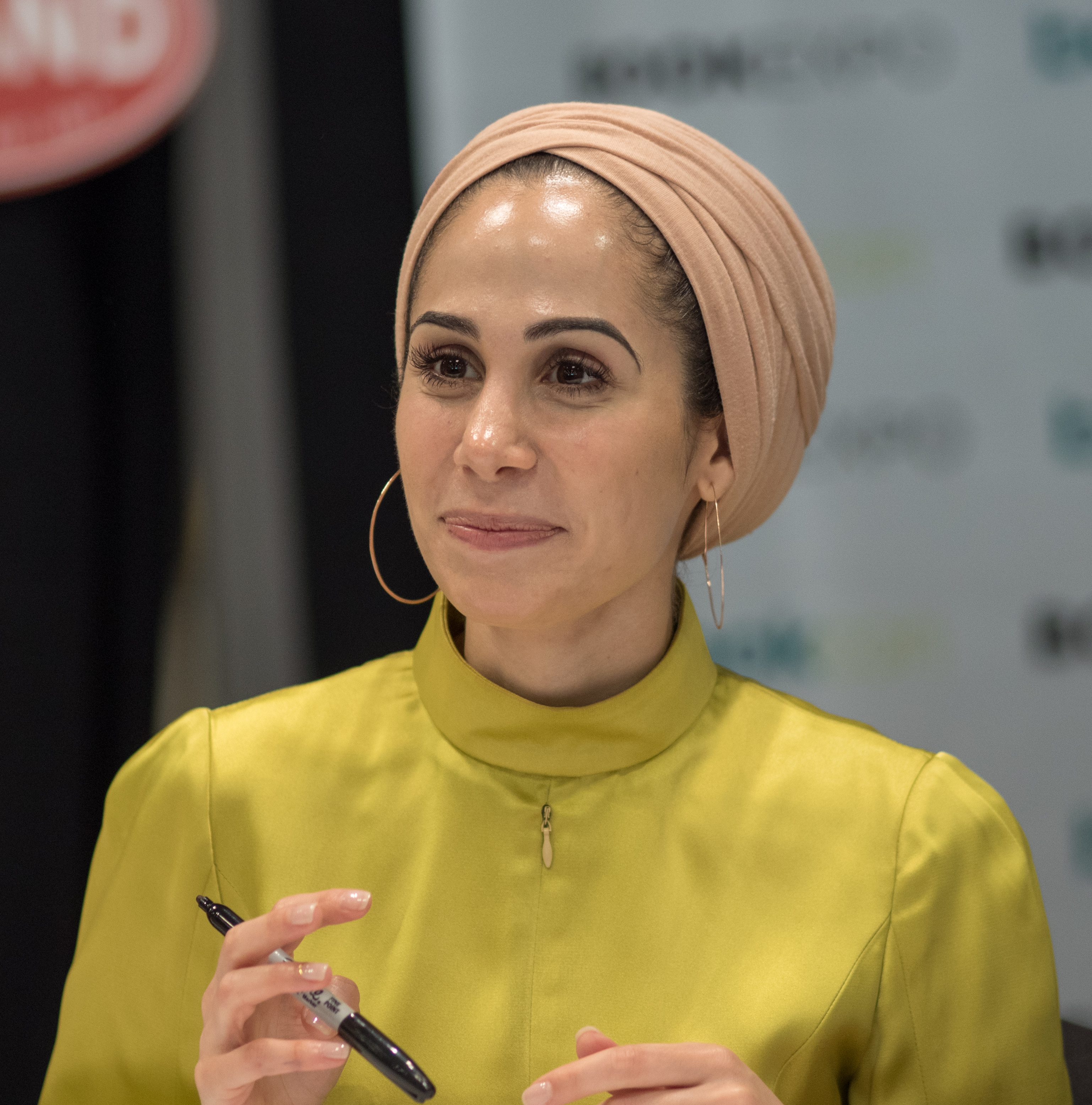 Tahereh Mafi BookCon 2018 at the Javits Convention Center in New York City.